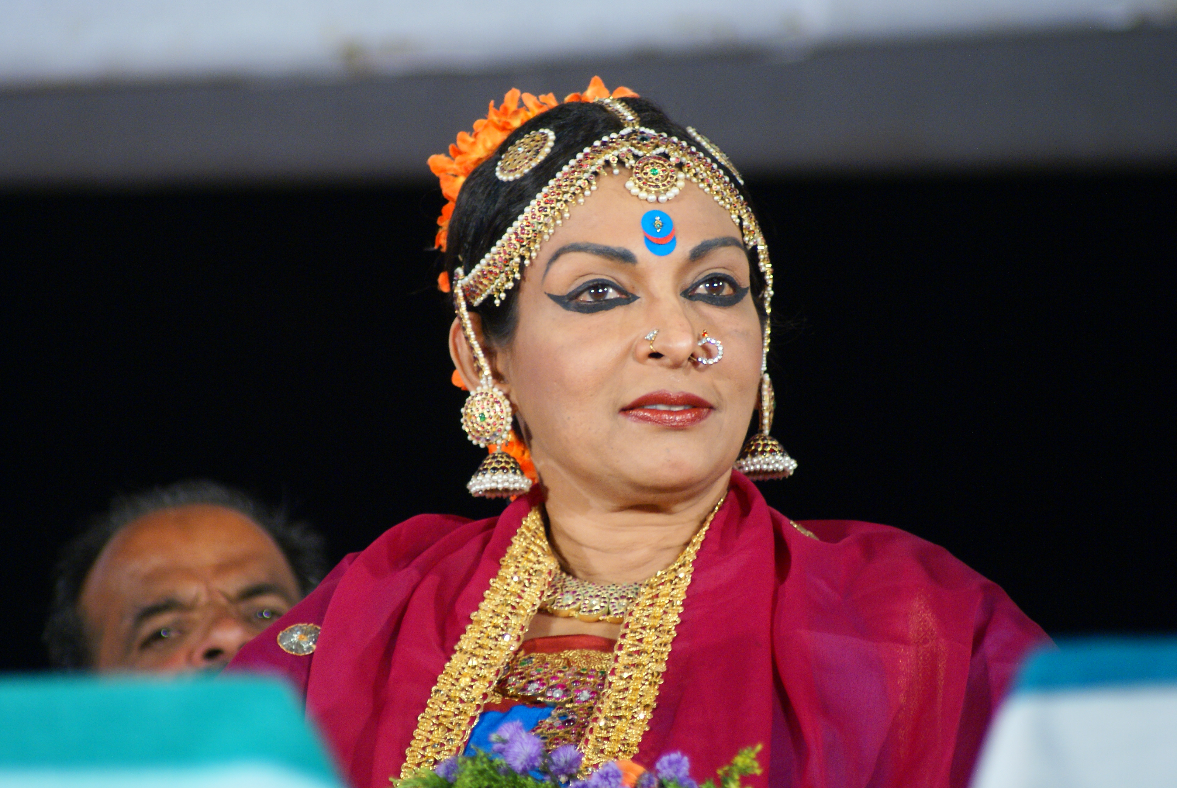 Mallika Sarabhai